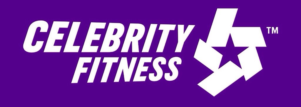 Celebrity Fitness Official New Logo